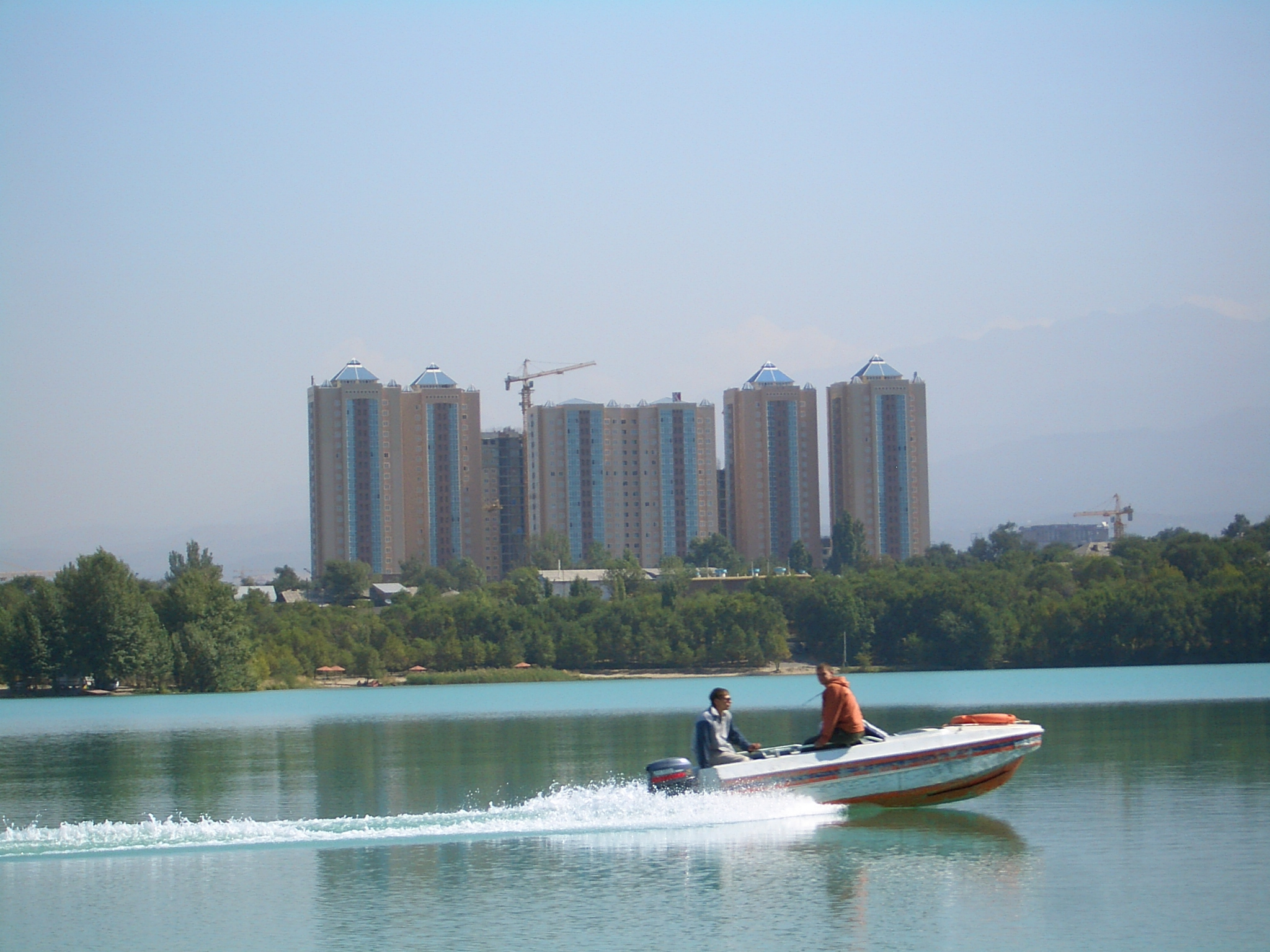 Sayran (Sairan) Lake in Almaty